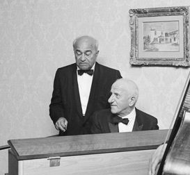 Entertainers Jimmy Durante (seated at piano) and Eddie Jackson (standing behind piano), perform during an evening reception at the residence of Arthur B. Krim and Dr. Mathilde Krim in New York City, New York.